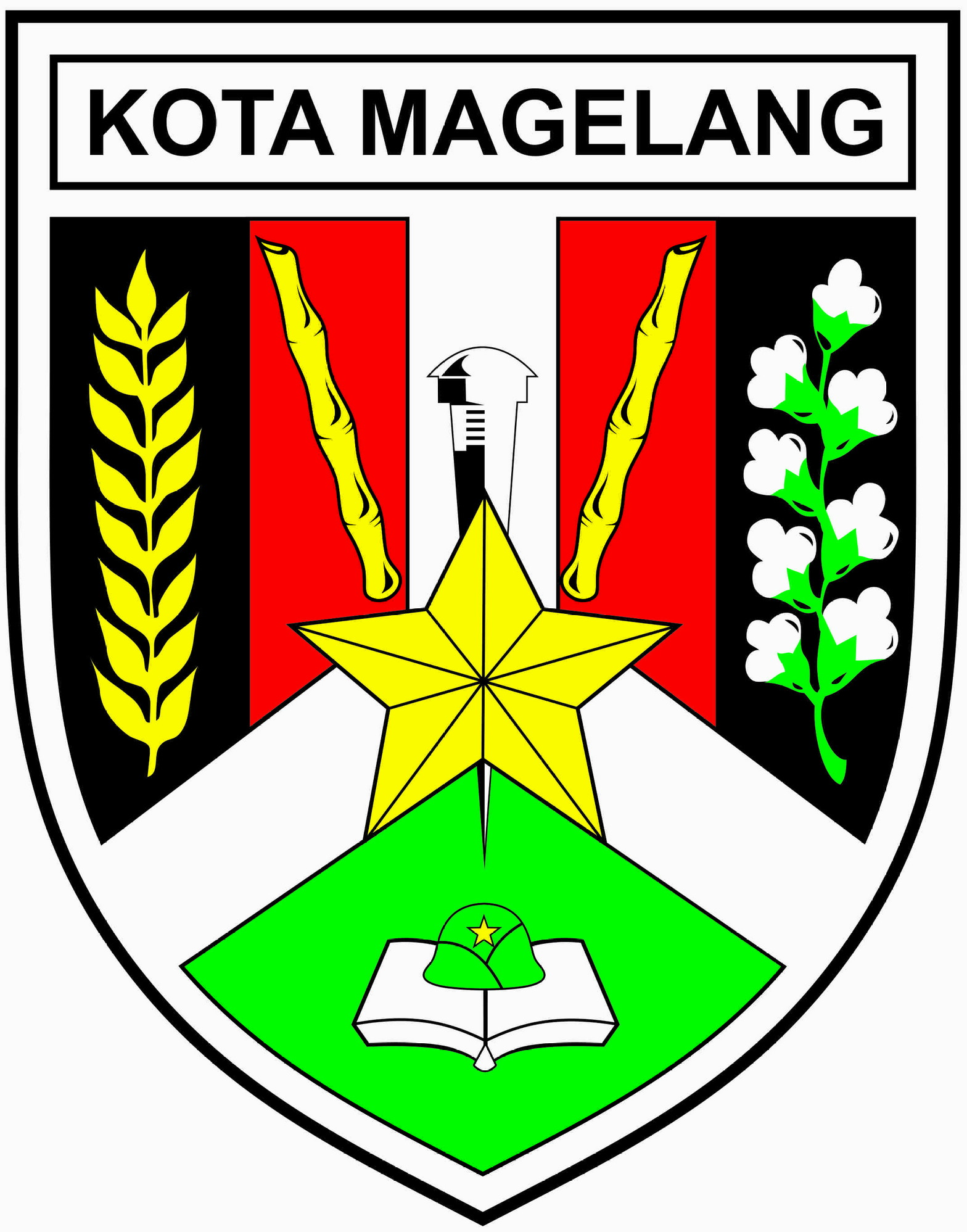 Shiled of the city of Magelang